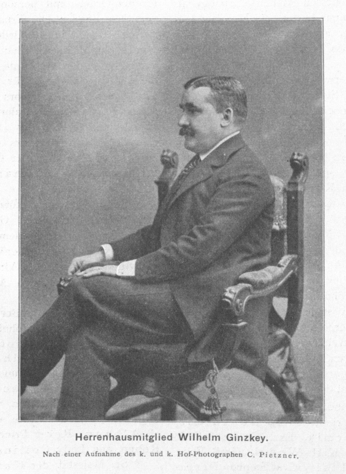 Portrait of Wilhelm Ginzkey (1856-1934), Austrian entrepreneur from Bohemia. Captioned as "member of House of Lords" (Herrnhaus, upper chamber of Austrian parliament).